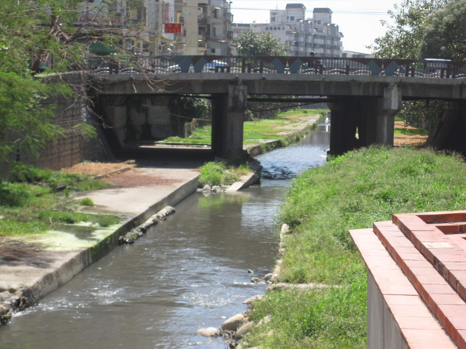 Chienchen River